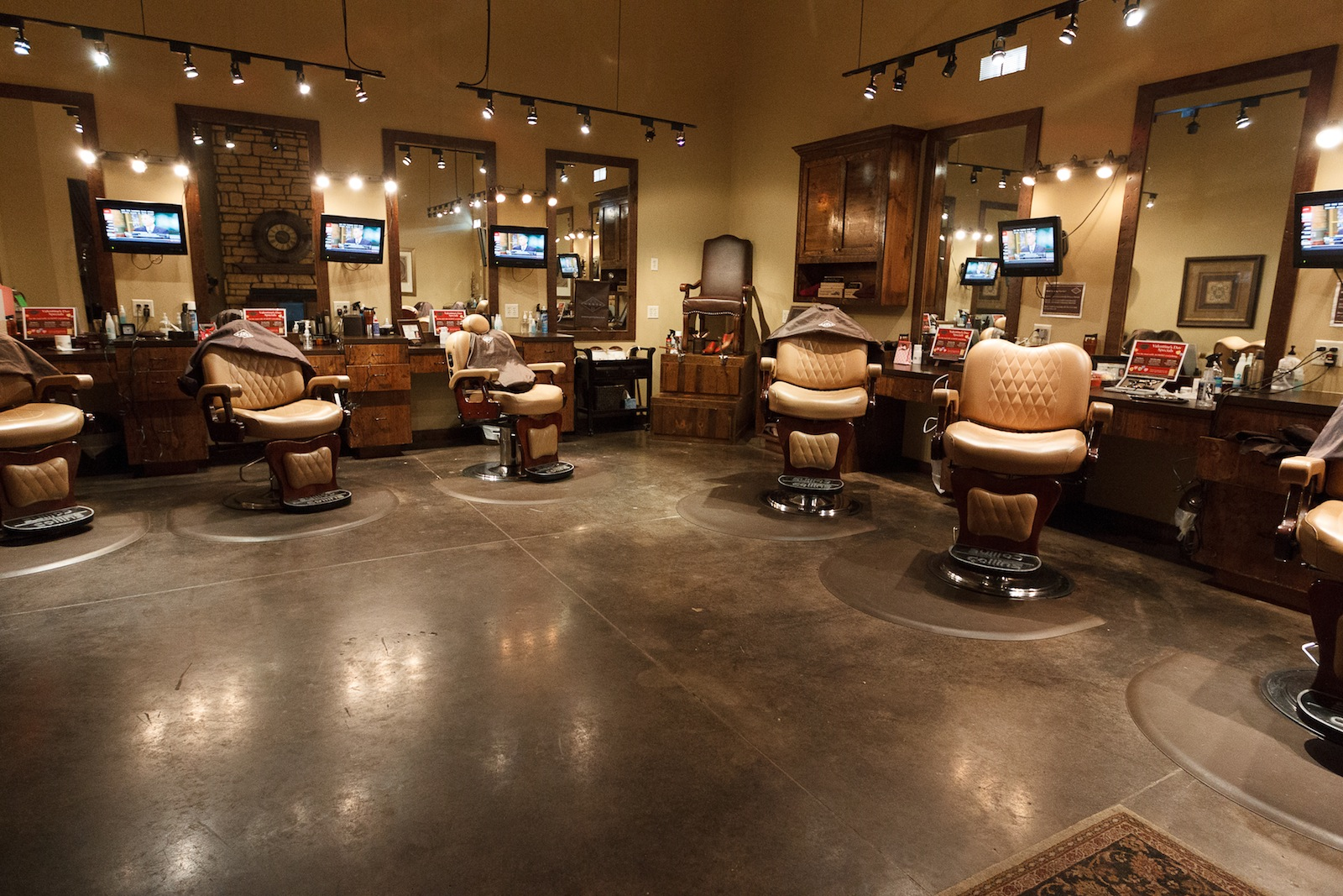 The main grooming floor at The Gents Place